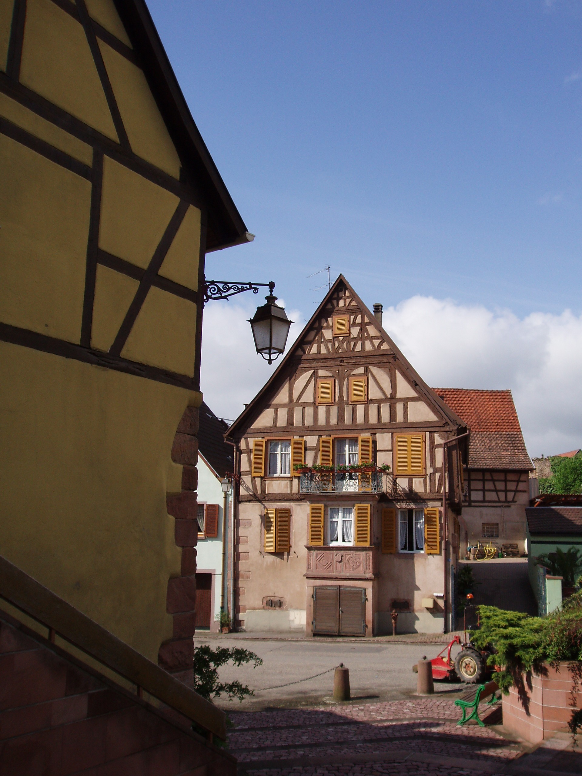 impressions of Saint-Hippolyte (Haut-Rhin), Alsac, France